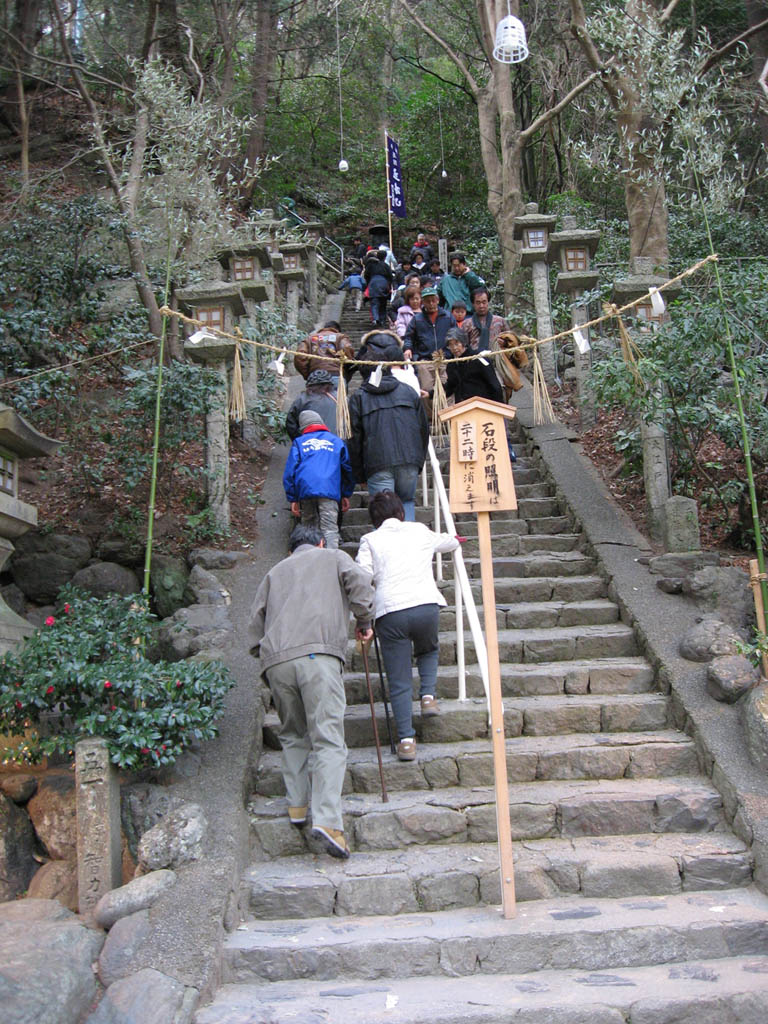 Anyoji Temple StoneStairs, Otsu city, Shiga prefecture, Japan. 安養寺（立木観音）石段（大津市）